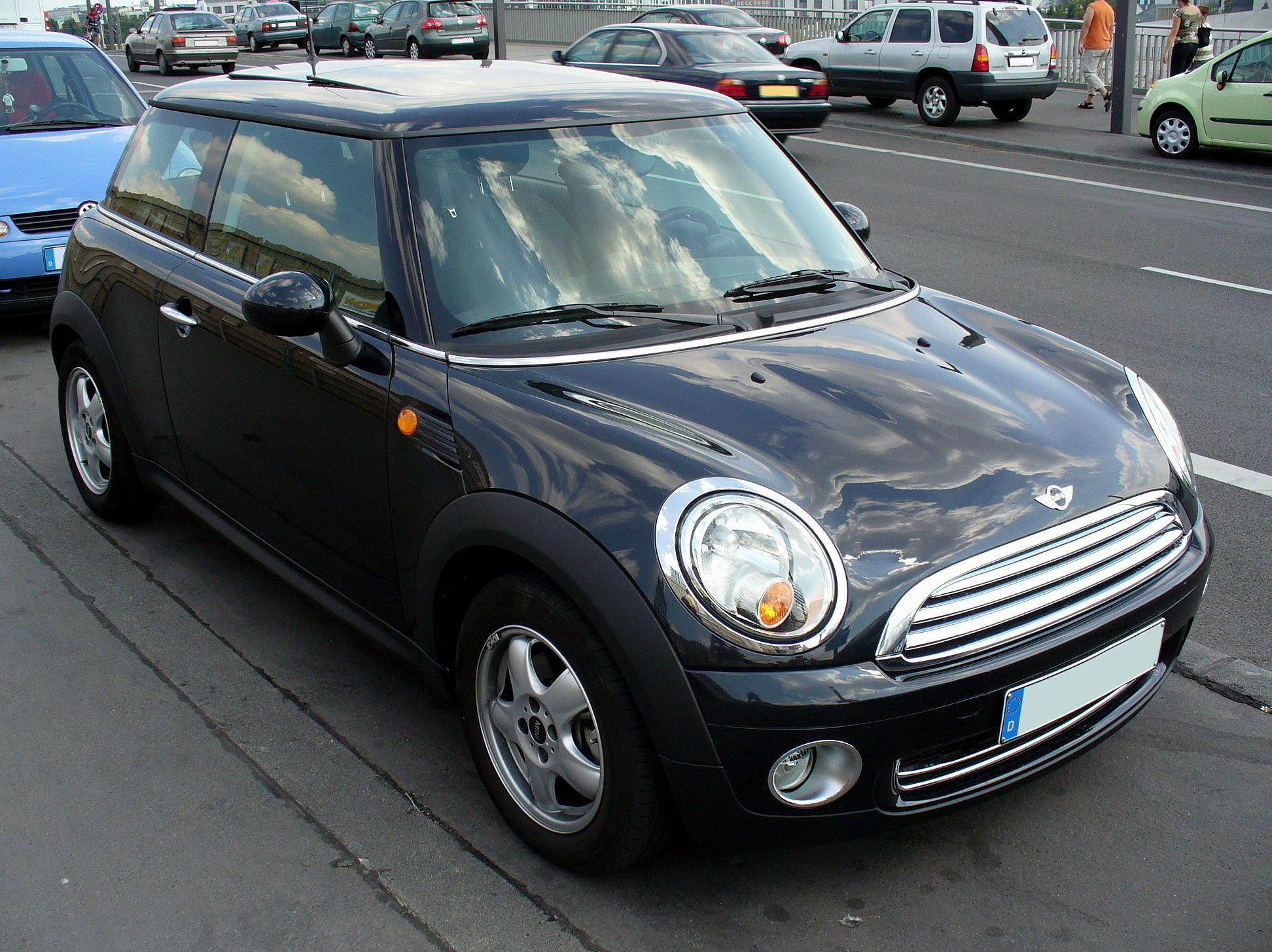 Mini Cooper R56